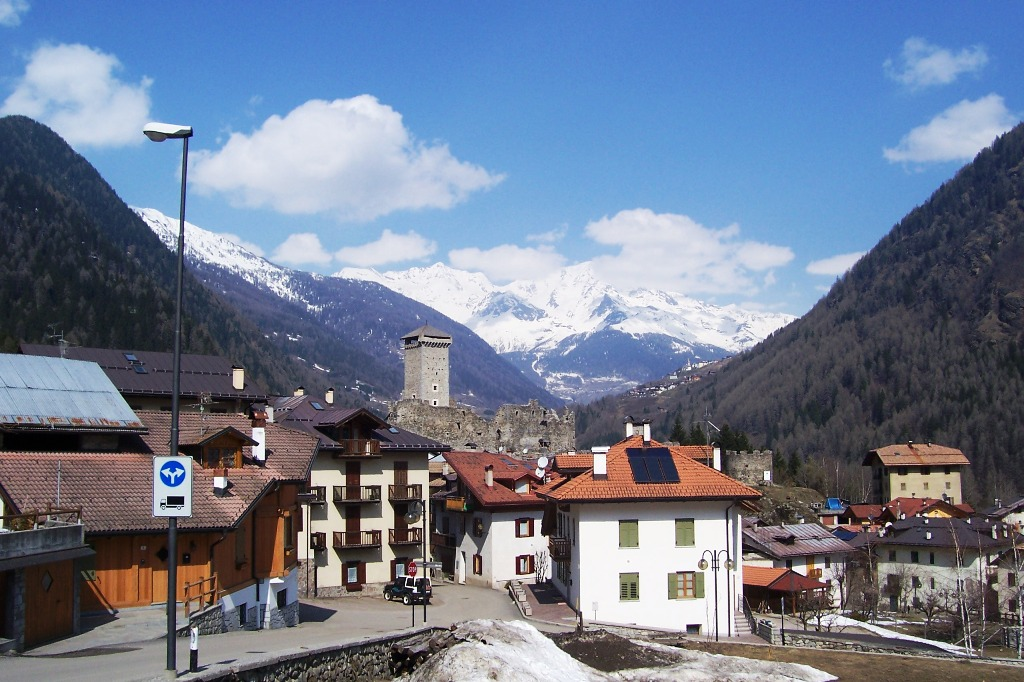 Panorama. Ossana, Val di Sole